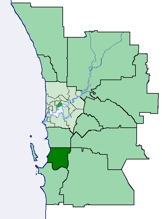 Location map of Town of Kwinana, Western Australia